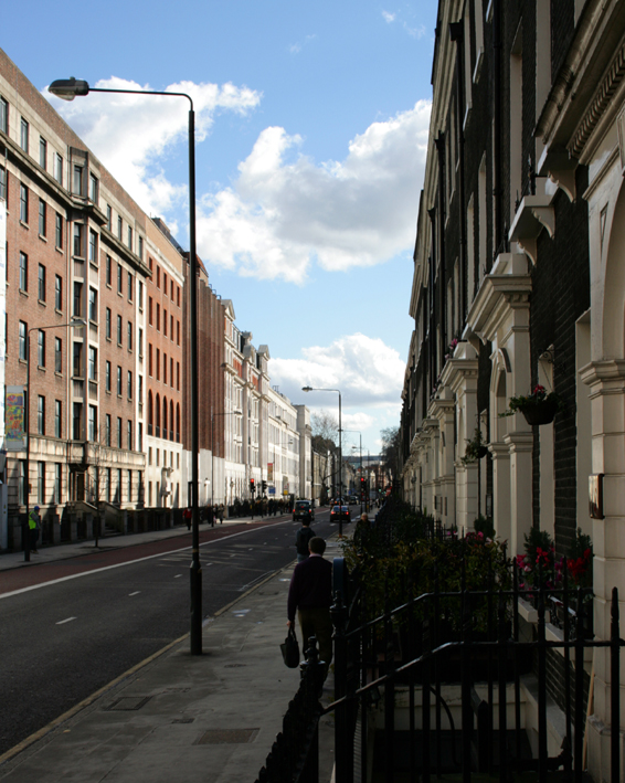 Gower Street, London. Looking south.